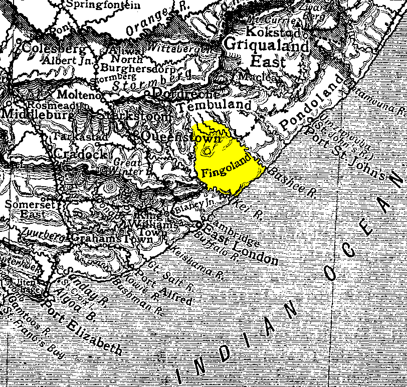 Map of so-called Transkei-Kaffraria area in 1911. Showing Fingoland and surrounding regions. Edited using free public domain images.